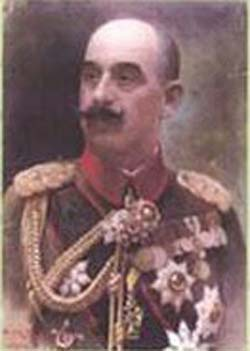 Suleiman Shefik Pasha (1860-1946): The commander of the Caliphate Army.